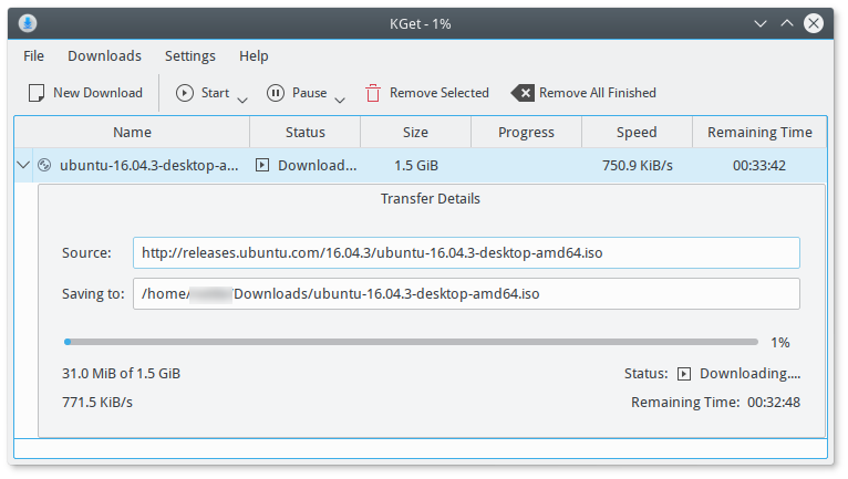 KGet 2.14.34 (17.08.0) on KDE Plasma 5.10.5 (KDE Development Platform 4.14.35)